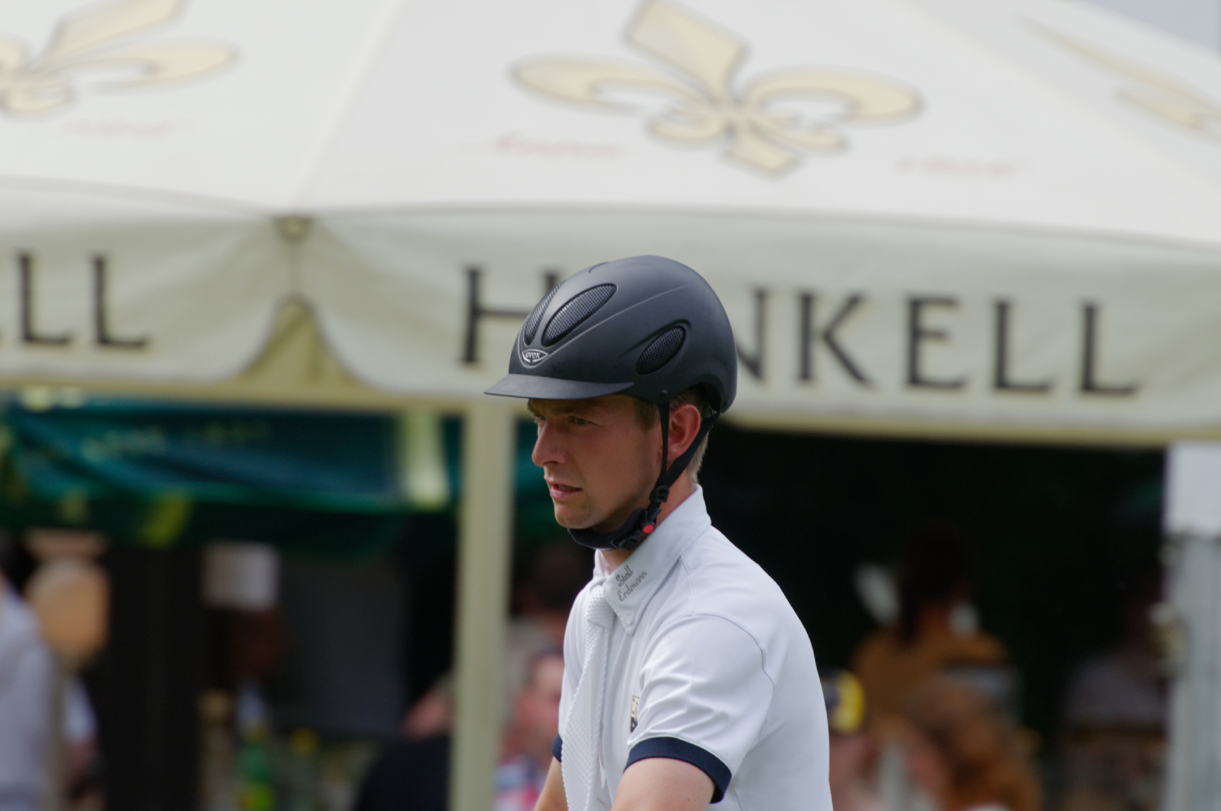 Internationales Pfingstturnier Wiesbaden 2014 The making of this document was supported by the Community-Budget of Wikimedia Germany.